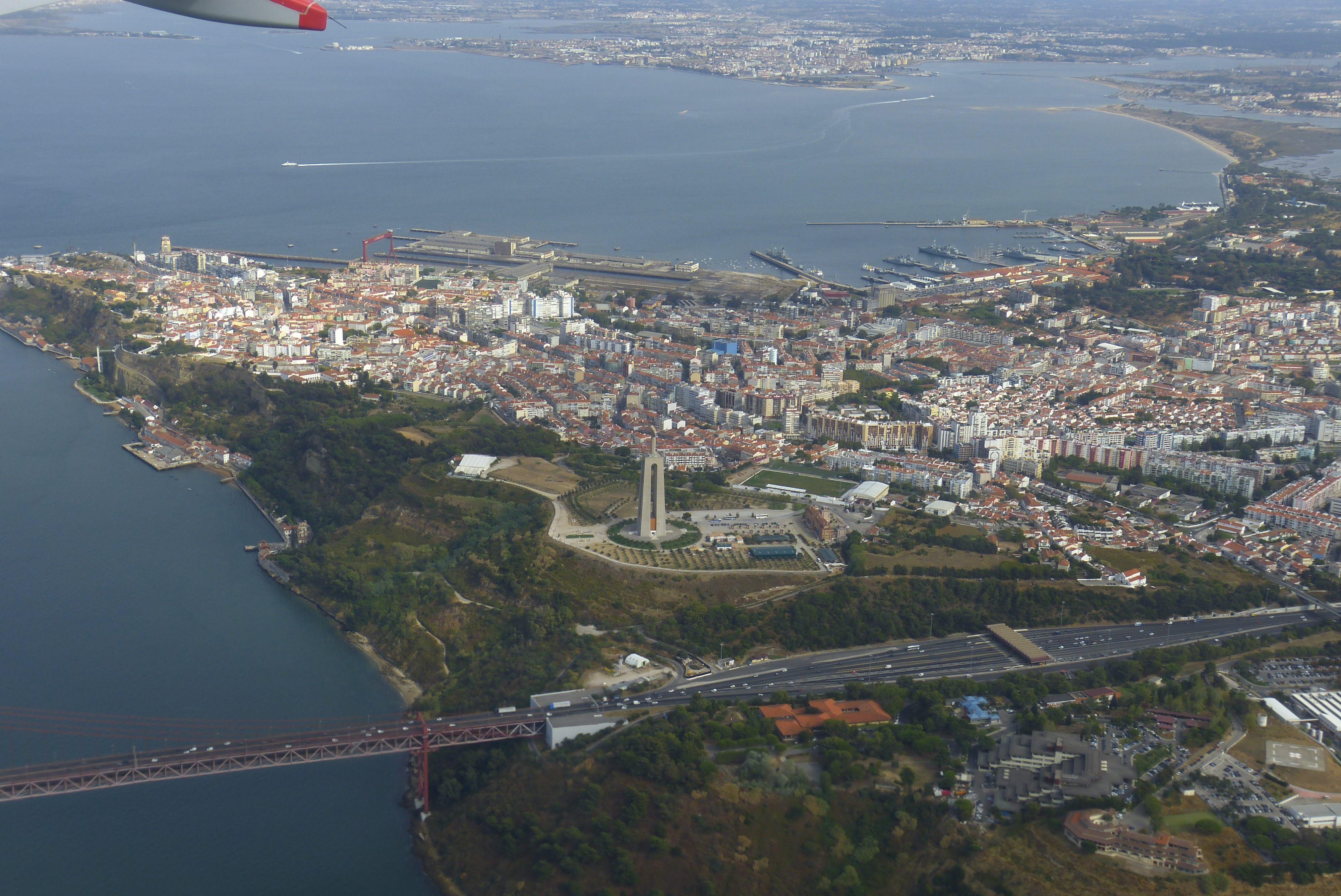 Aerial photograph of Almada with Cristo Rei